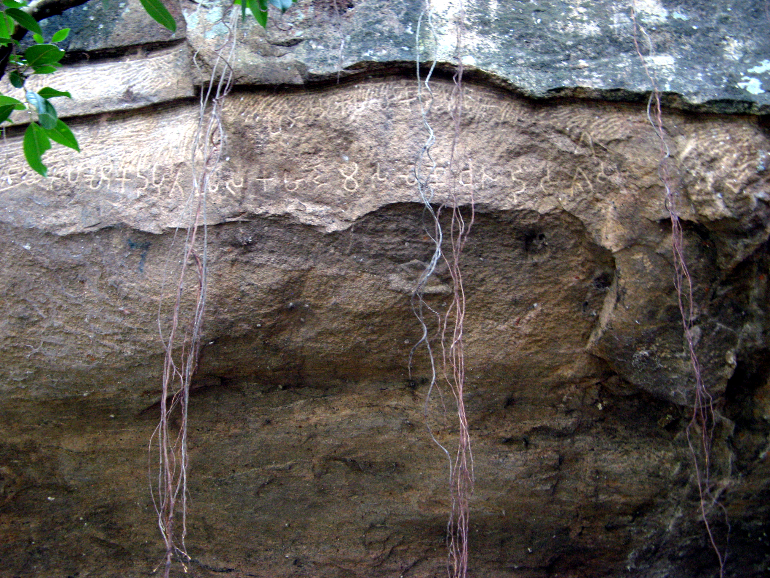 The drip ledge of this rock shelter is inscribed with some characters in the Brahmi script. The language of the inscription is Prakrit. It records the endowment of this dwelling, by a lay chieftain, to the monastery.